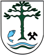 Coat of arms of Lohsa Hornjoserbsce: Wopon gmejny Łaza.